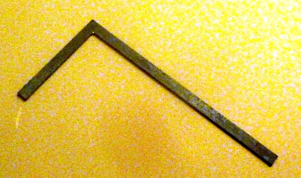 I took this photo at the Shaanxi History Museum in Xi'an, China in 2011.